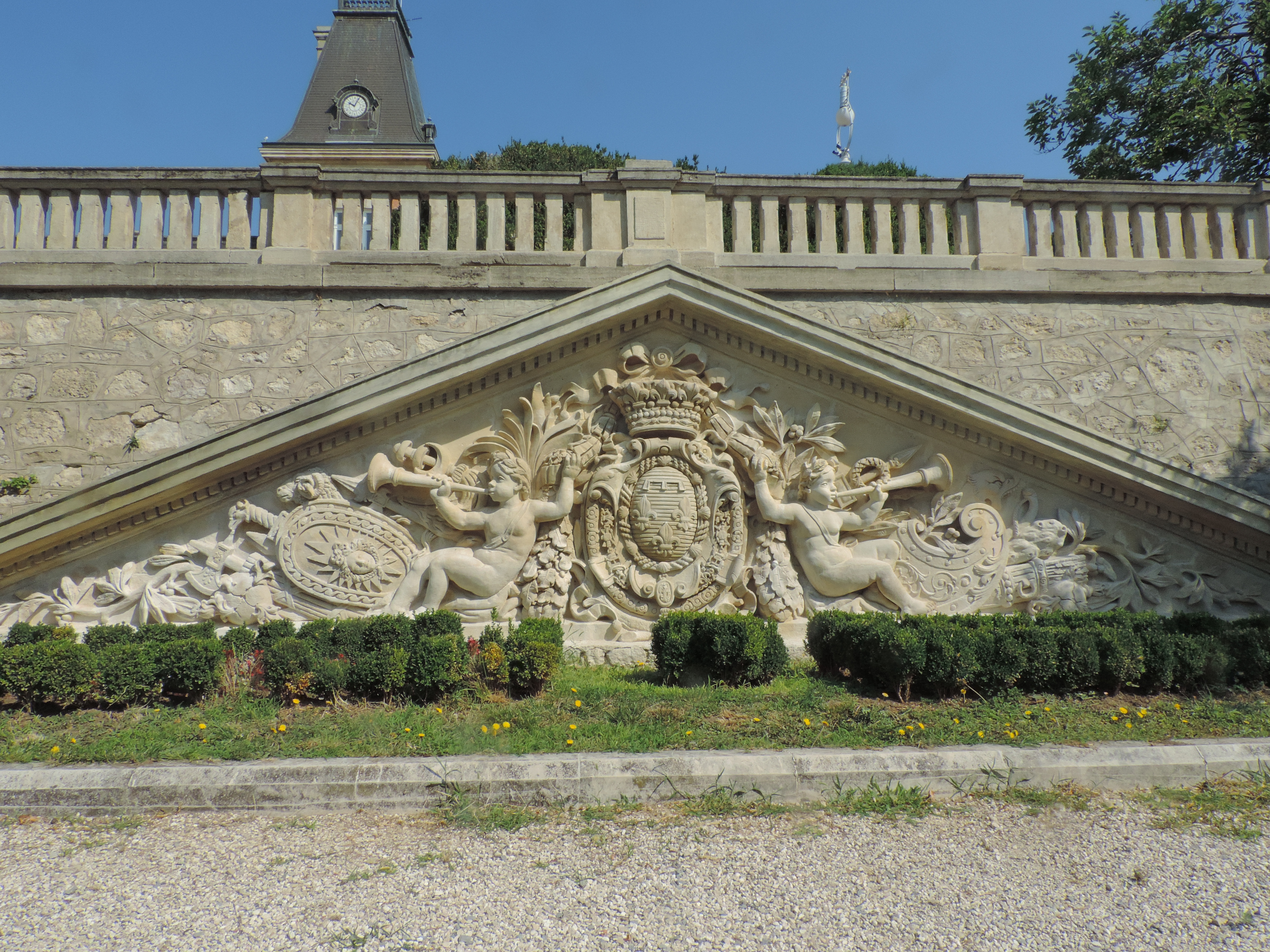 Euxinograd is a late 19th-century Bulgarian former royal summer palace and park on the Black Sea coast, 8 kilometres (5.0 mi) north of downtown Varna. The palace is currently a governmental and presidential retreat hosting cabinet meetings in the summer and offering access for tourists to several villas and hotels. Since 2007, it is also the venue of the Operosa opera festival. Euxinograd is situated at an altitude of 49 m. The park and palace were closed until the summer of 2016 due to extensive renovations.